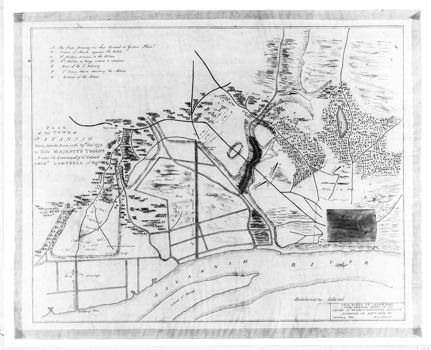 This is a map depicting the British movements in the December 29, 1778 Capture of Savannah, Georgia. This map appears to be a hand-drawn copy of an original now at the Georgia Historical Society.